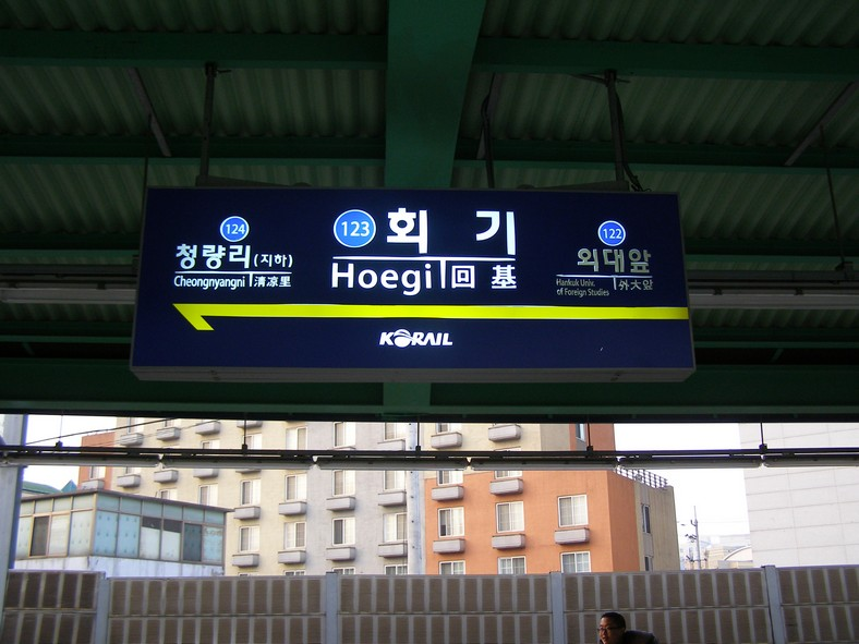 Hoegi Station